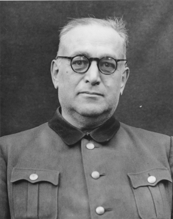 Portrait of Paul Rostock as a defendant in the Medical Case Trial at Nuremberg. [Photograph #07336], Nov 5, 1946 - Aug 20, 1947 , Nuremberg, [Bavaria] Germany